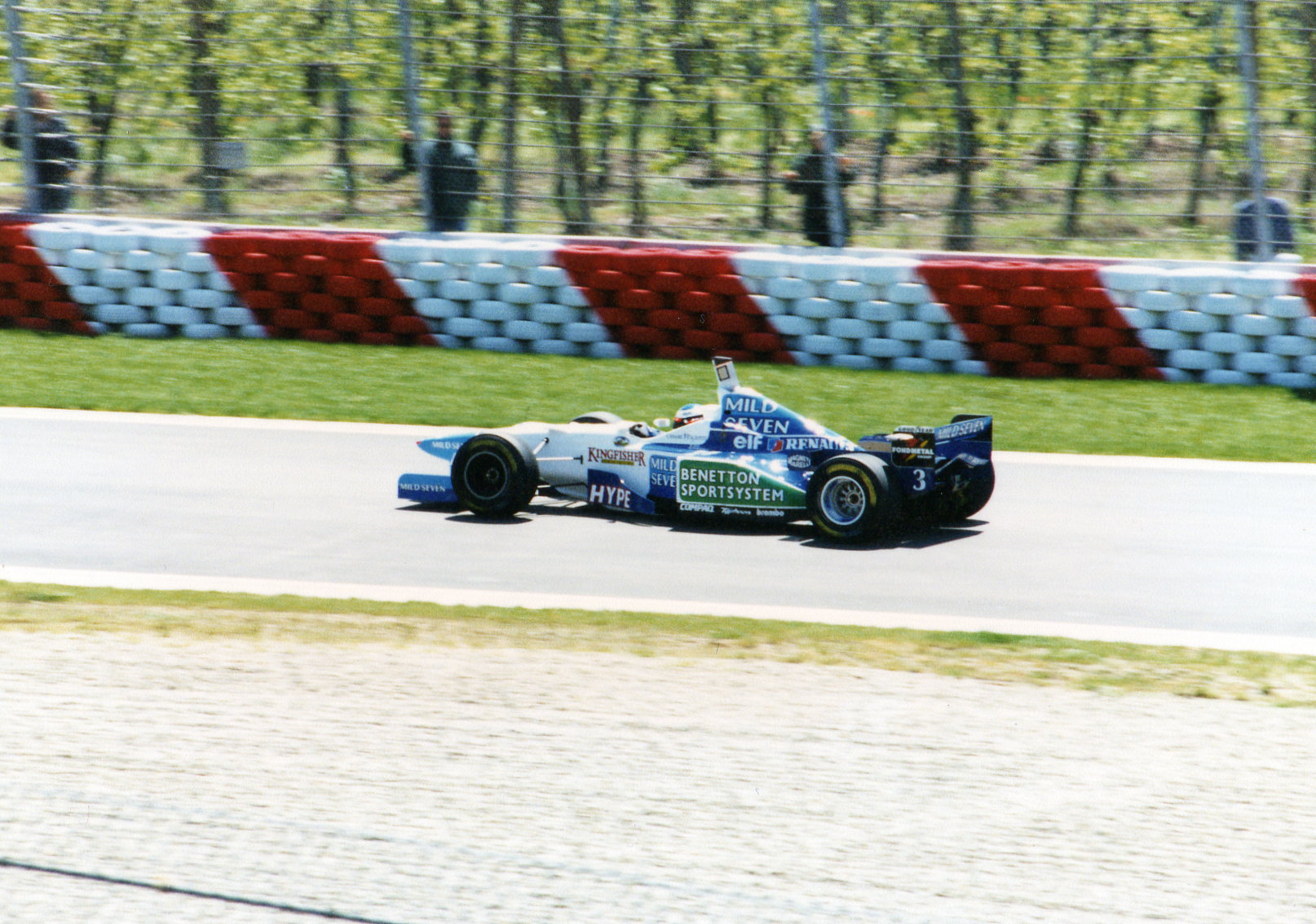 Jean Alesi during free practice of 1996 San Marino Grand Prix.